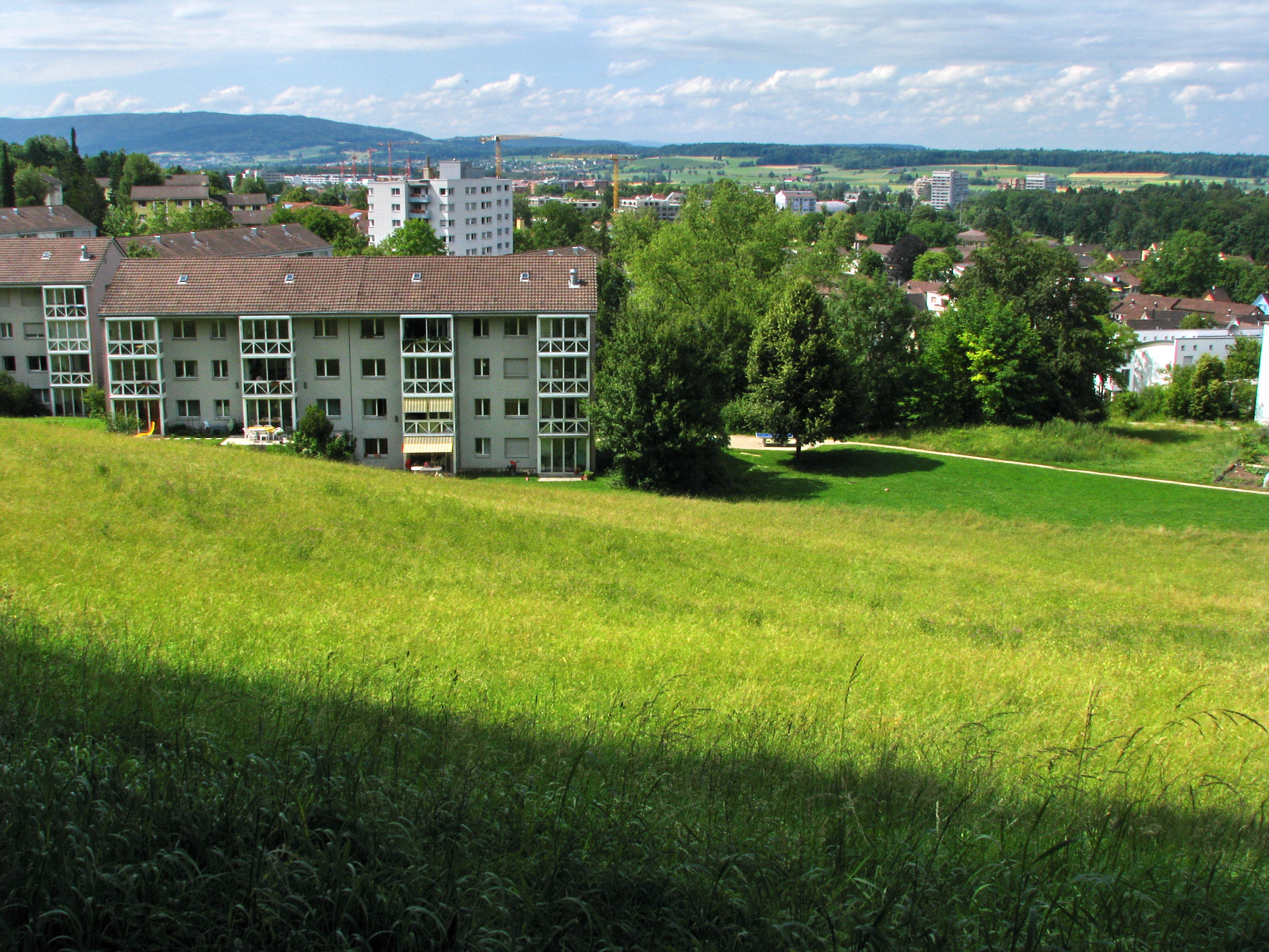 Zürich-Affoltern as seen from northern Käferberg-Waidberg hill, Lägern in the background (to the left).